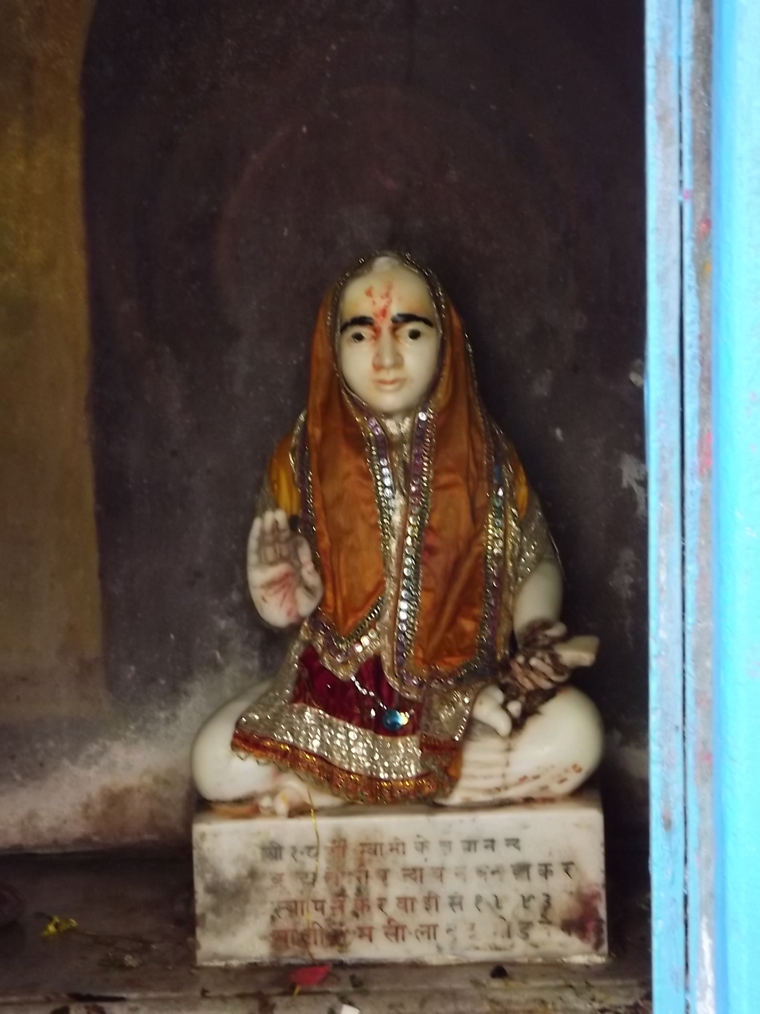 badrinath